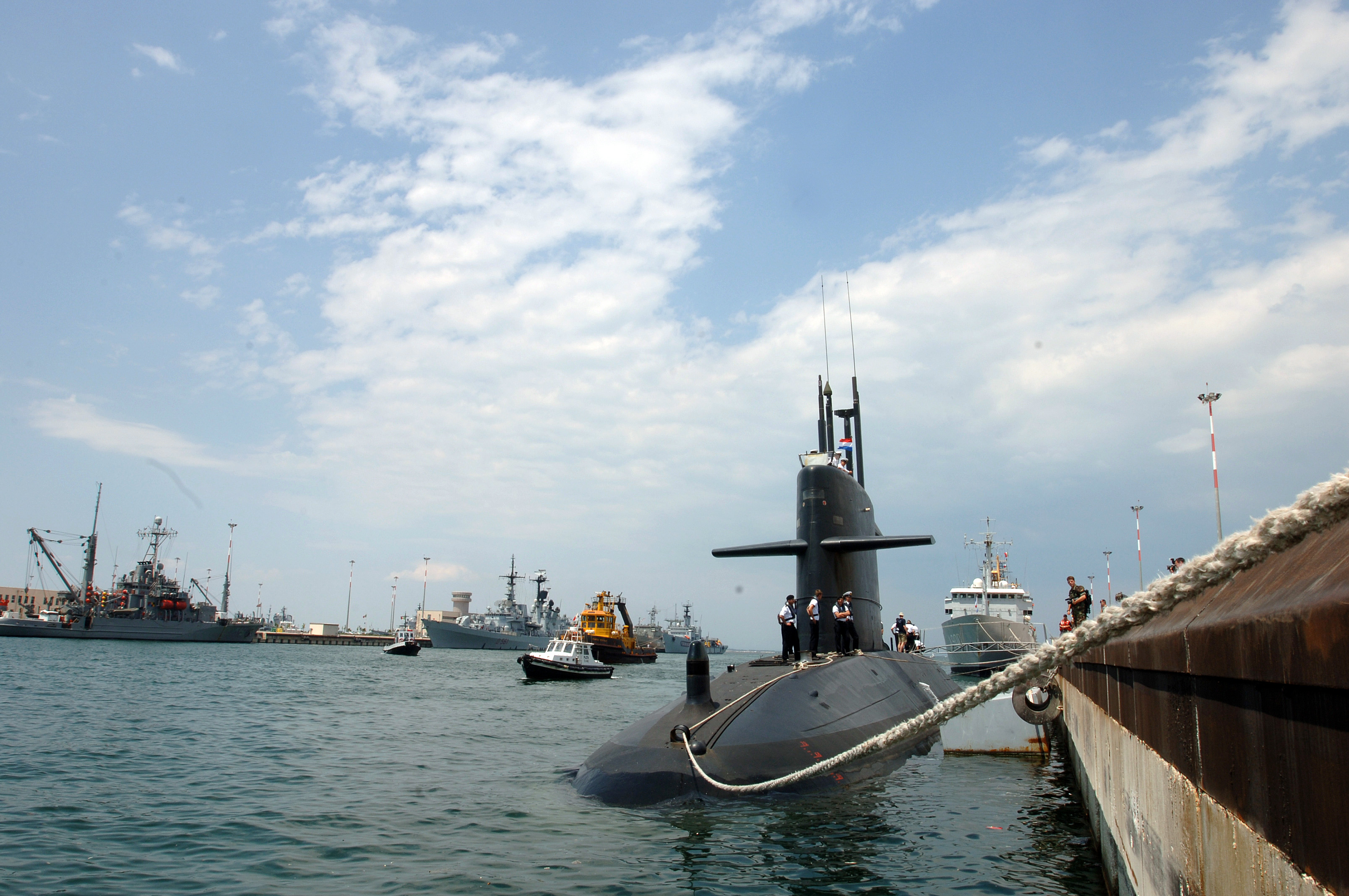 Taranto, Italy (June 19, 2005) - The Dutch submarine HNLMS Dolfijn (S 808) prepares to get underway from Taranto Naval Base Mar Grande marking the beginning of the North Atlantic Treaty Organization (NATO) submarine escape and rescue exercise Sorbet Royal 2005. Divers from various nations will work together to rescue submariners during the exercise in the Mediterranean. Twenty-seven participating nations, including 14 NATO nations will test their capabilities and interoperability. Four submarines with up to 52 crewmembers aboard will be placed on the bottom of the ocean, while rescue forces with rescue vehicles and systems work together to solve complex disaster rescue problems. U.S. Navy photo by Chief Journalist Dave Fliesen (RELEASED)